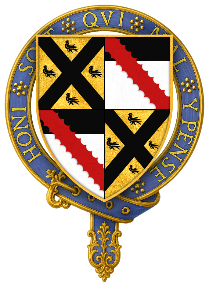 Coat of arms of Sir Richard Guildford, KG BURKE, Sir Bernard, The General Armory of England, Scotland, Ireland, and Wales: Comprising a Registry of Armorial Bearings from the Earliest to the Present Time, London: Harrison & sons, 1884. “Guildeford (Sir Richard Guildford, K.G. 1500, d. 28 Sept. 1506, and sir Henry Guildeford, K.G. 1526, d. 1532). Or, a saltire betw. four martlets sa.”